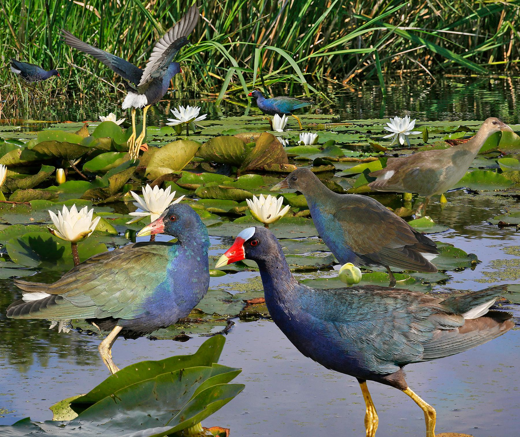 Purple Gallinule From The Crossley ID Guide Eastern Birds